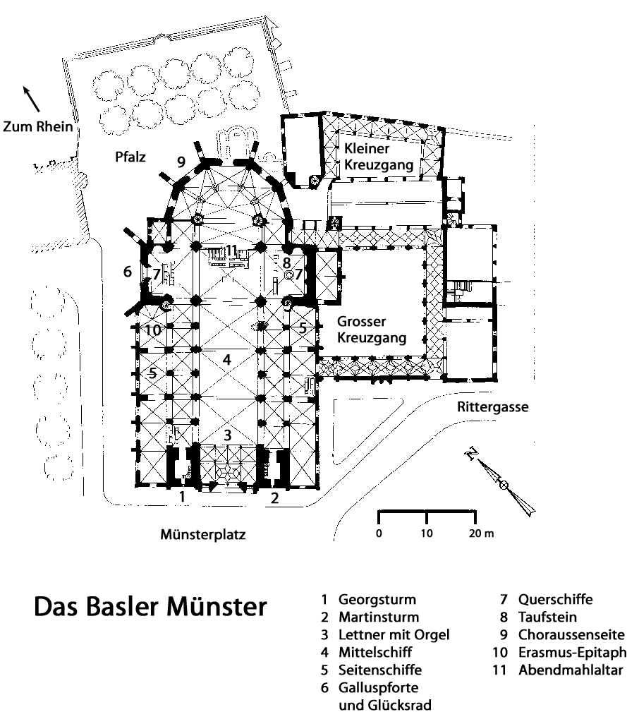 Basel cathedral plan - from wiki